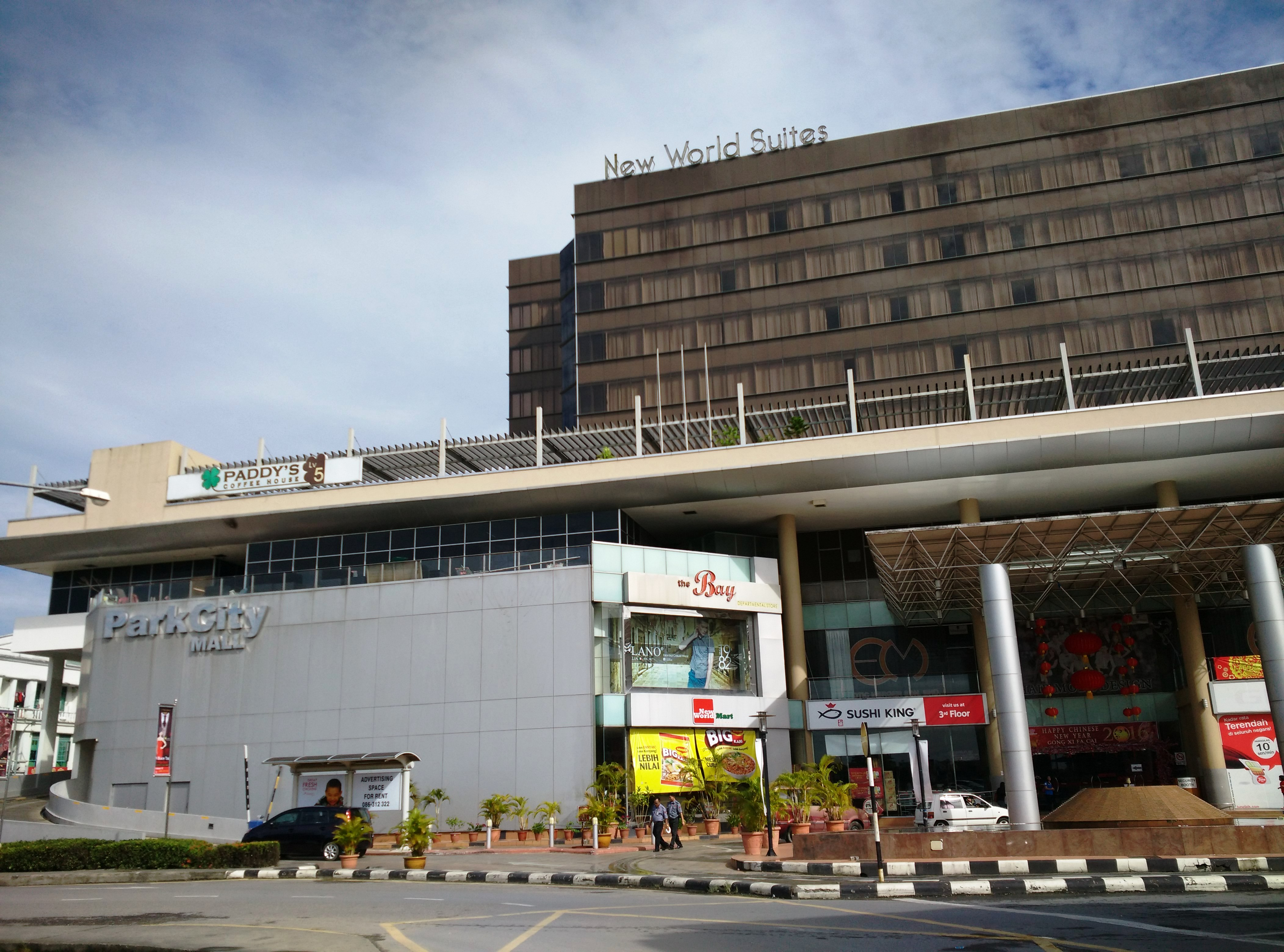 ParkCity Mall and New World Suites Hotel, Bintulu